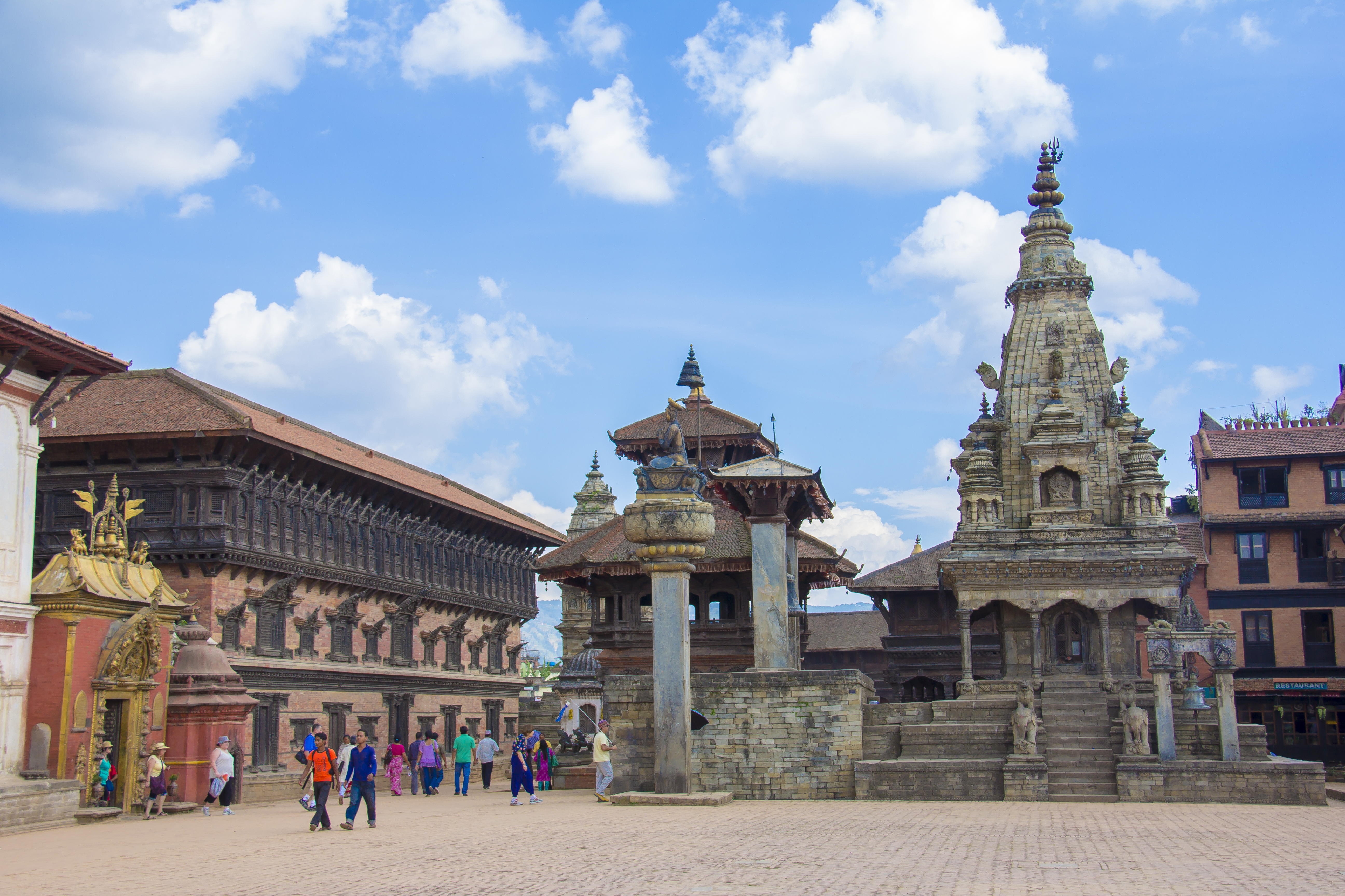 Bhaktapur Durbar Square is the plaza in front of the royal palace of the old Bhaktapur Kingdom.